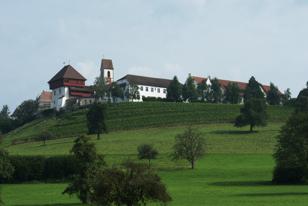 Kommende Hohenrain